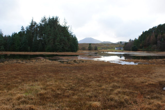 Llyn Sarnau with Moel Siabod beyond